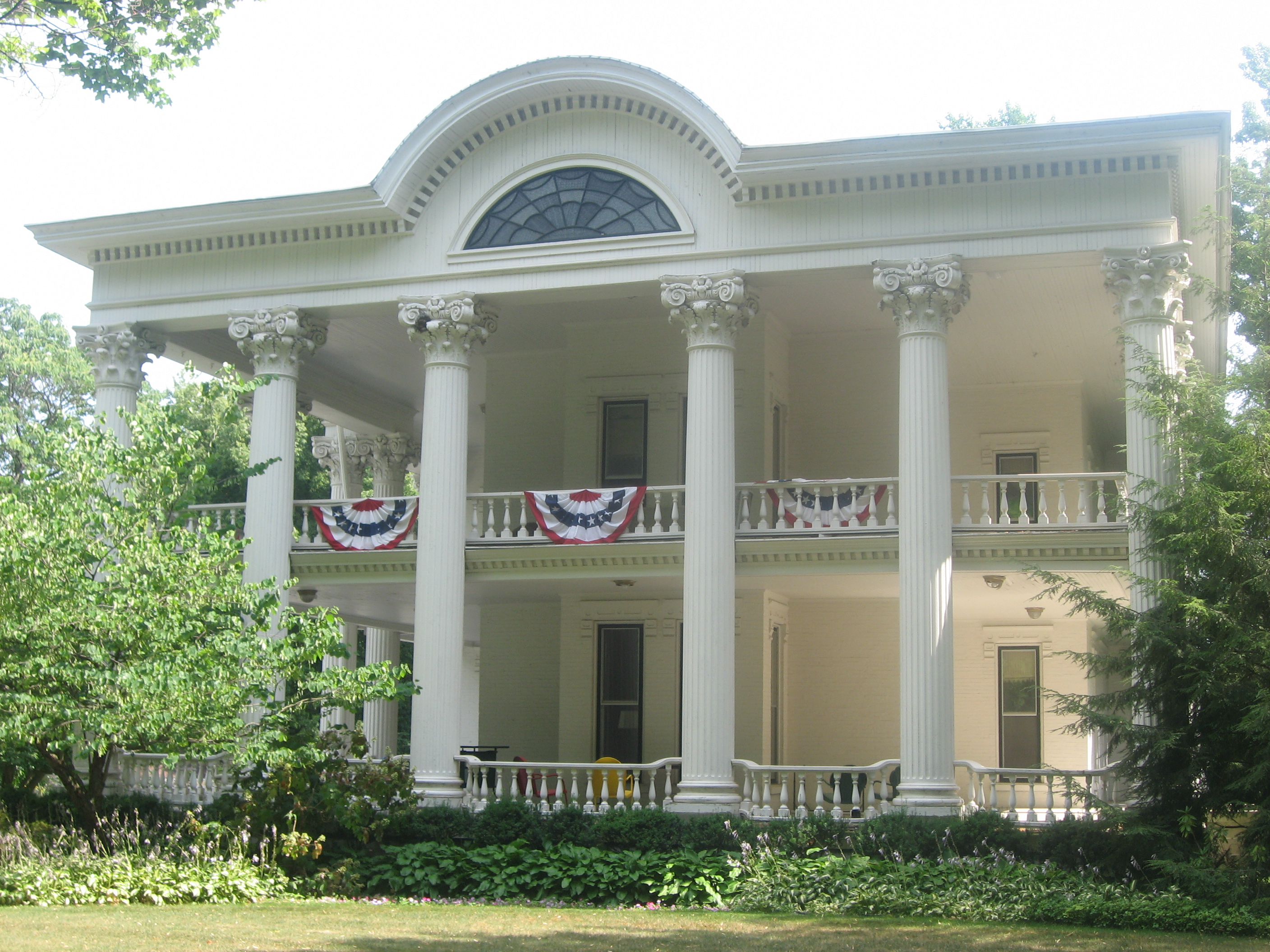 Front of the Charles Gerard Conn Mansion, located at 723 W. Strong Avenue in Elkhart, Indiana, United States. Built in 1884, it is listed on the National Register of Historic Places.